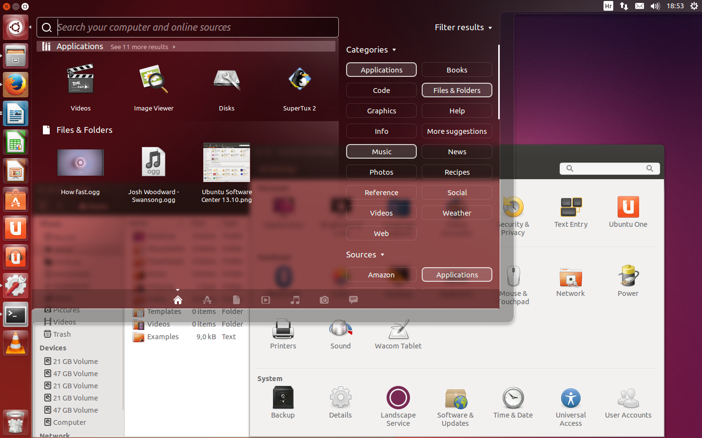 Screenshot of Ubuntu 13.10 Desktop with Unity. Compiled from various visual elements of free software.